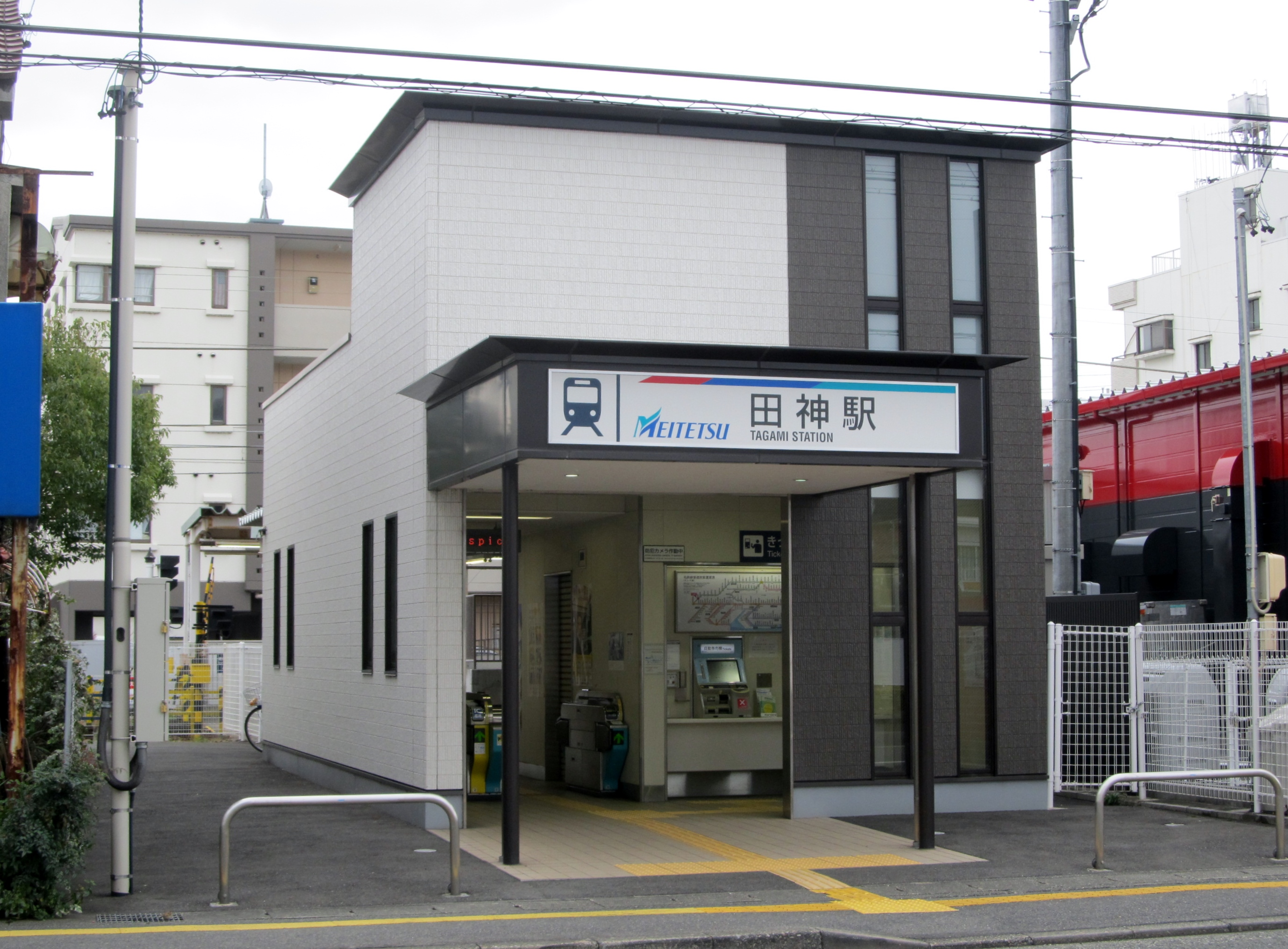 Nagoya Railroad Kakamigahara Line Tagami Station Building